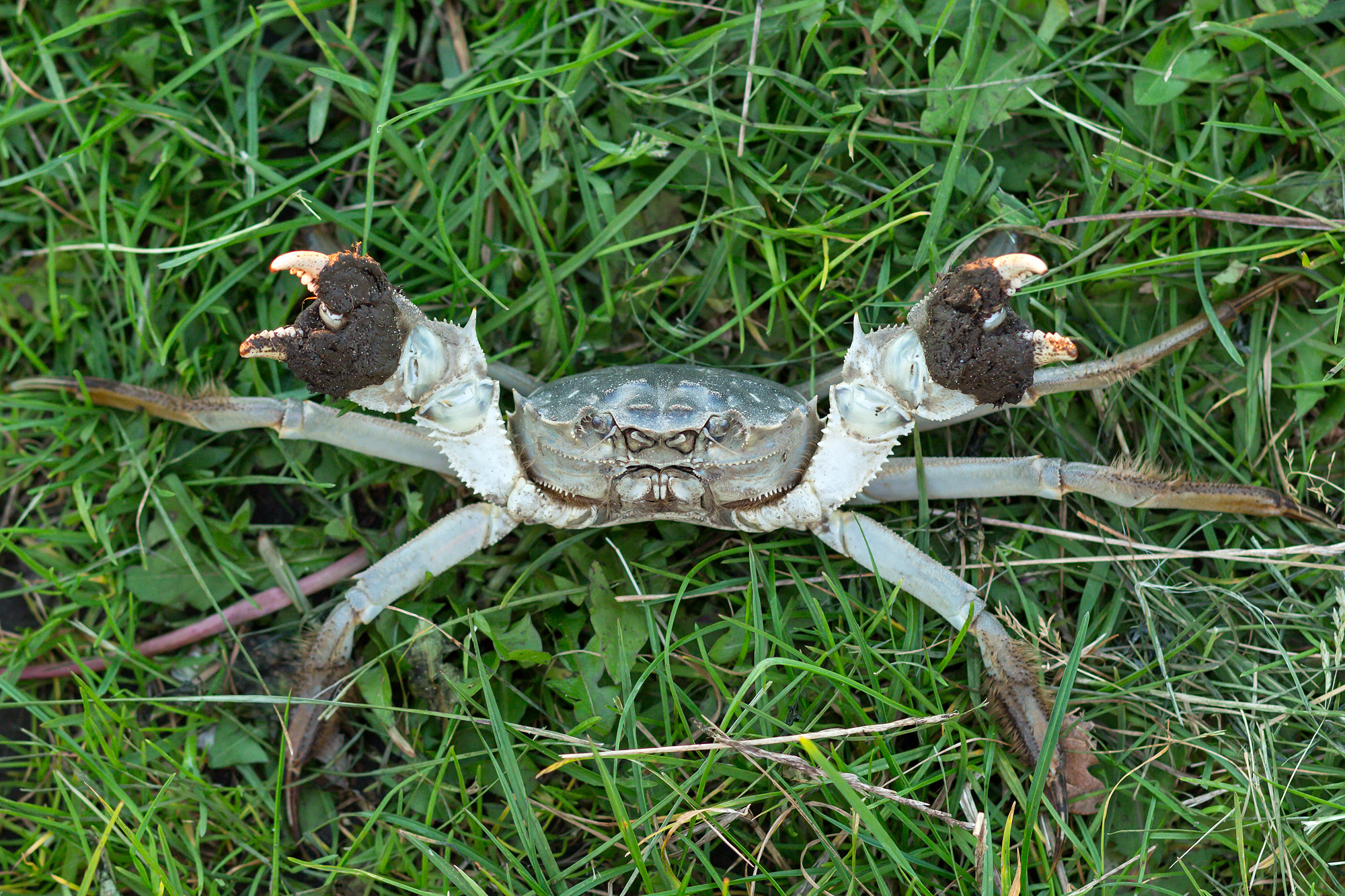 The Chinese mitten crab, Eriocheir sinensis. This male specimen was found ashore in 150 metres distance to the banks of the Elbe river. It behaves defending against the viewer by erecting the body and showing its hairy claws. The carapax’s width is estimated at six centimetres.